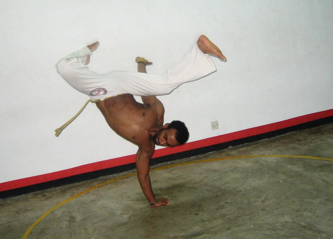 Instructor Rafael demonstrates his version of the Au Batido. Photo by Ngeow Wu Han